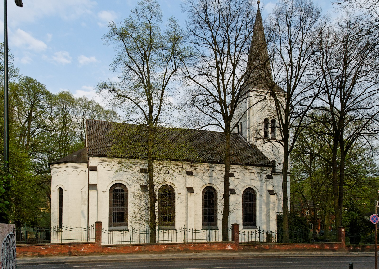 Gustavus Adolphus Church in Düsseldorf-Gerresheim, Germany